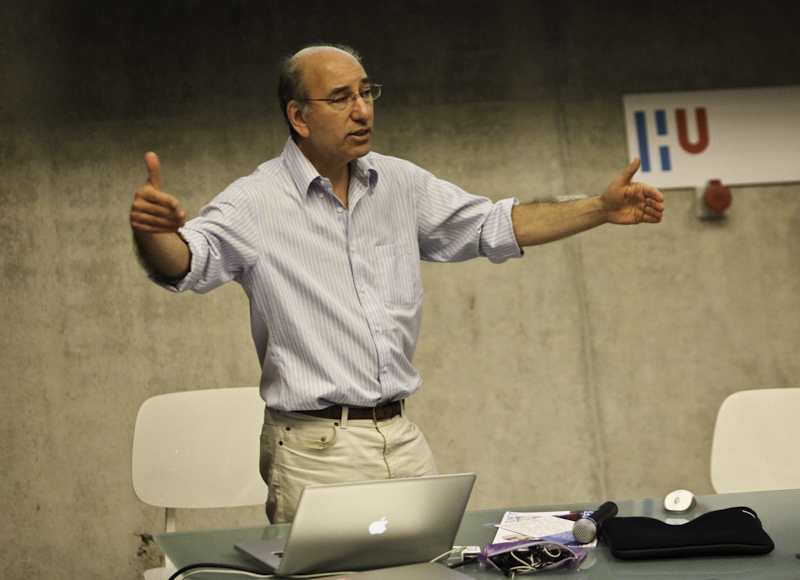 Creative Spaces - David Kirsh